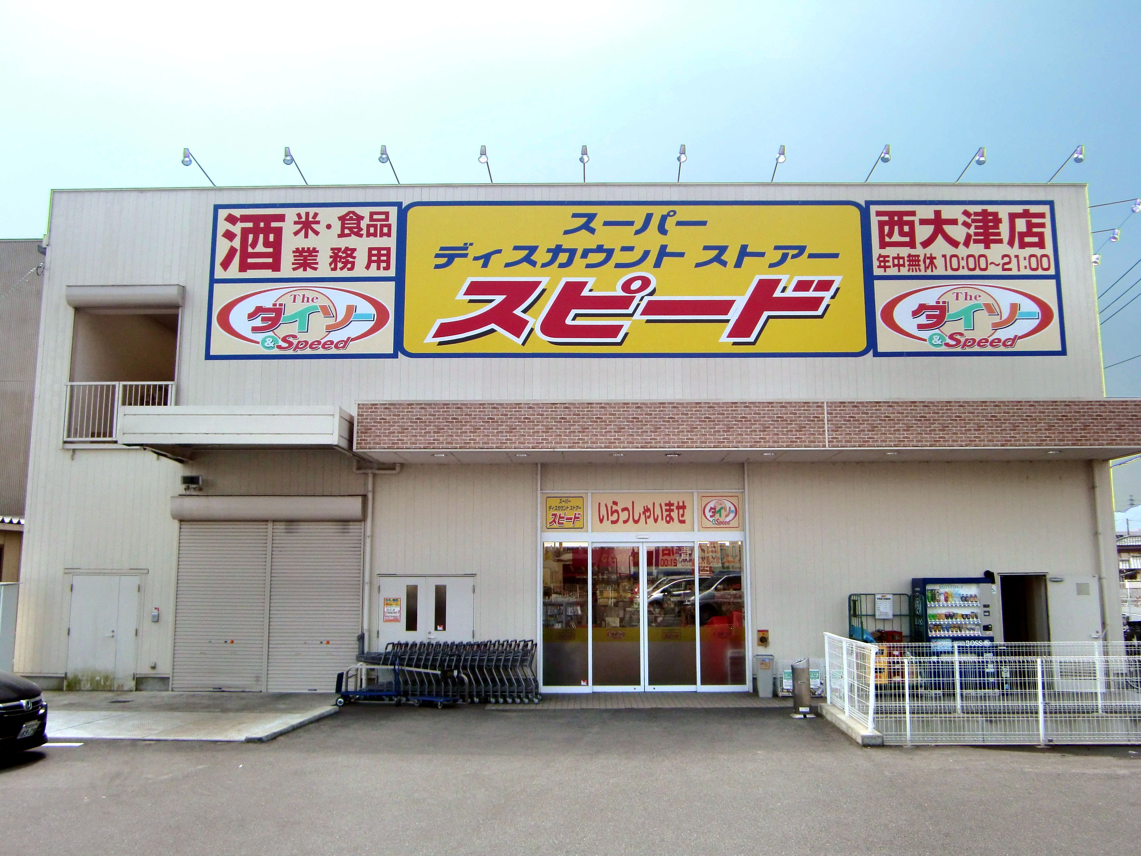 Speed Nishi-Otsu,9-5 Matsuyamacho Otsu-City Shiga Japan.